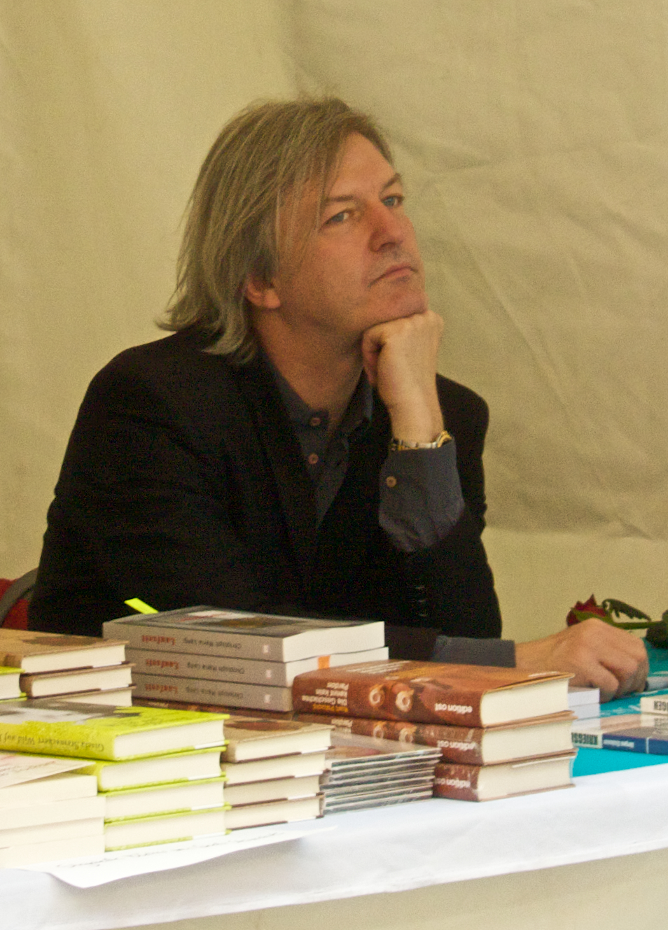 Photo of the German journalist Jürgen Elsässer at the "Pressefest" oft the newspaper "Neues Deutschland"